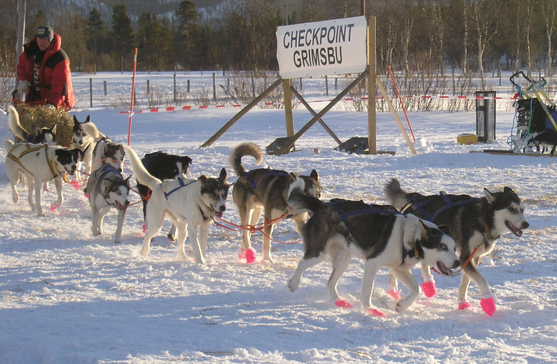 World Sledgedog Championship 2011: Roar Kvilvang arriving Checkpoint Grimsbu